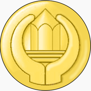 United States Army Chaplain Assistant for use in galleries